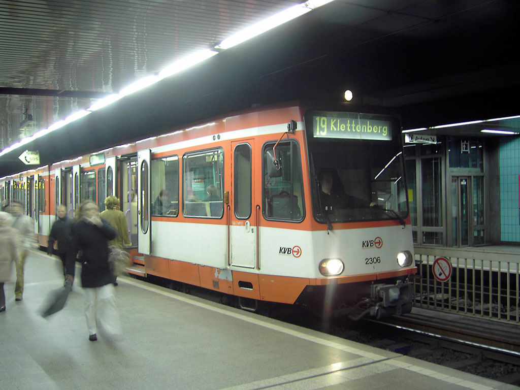 Cologne type B LRV at Appellhofplatz station. The platform is lower than the train's floor, requiring passengers to climb some steps to board.